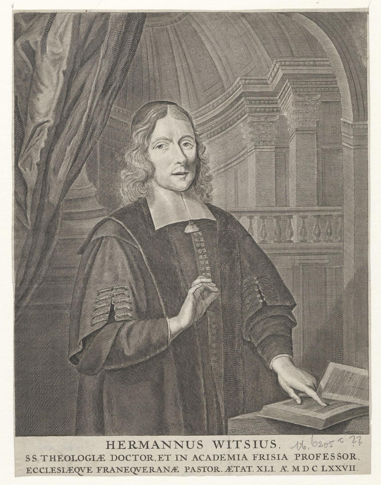 Portrait of Hermann Witsius